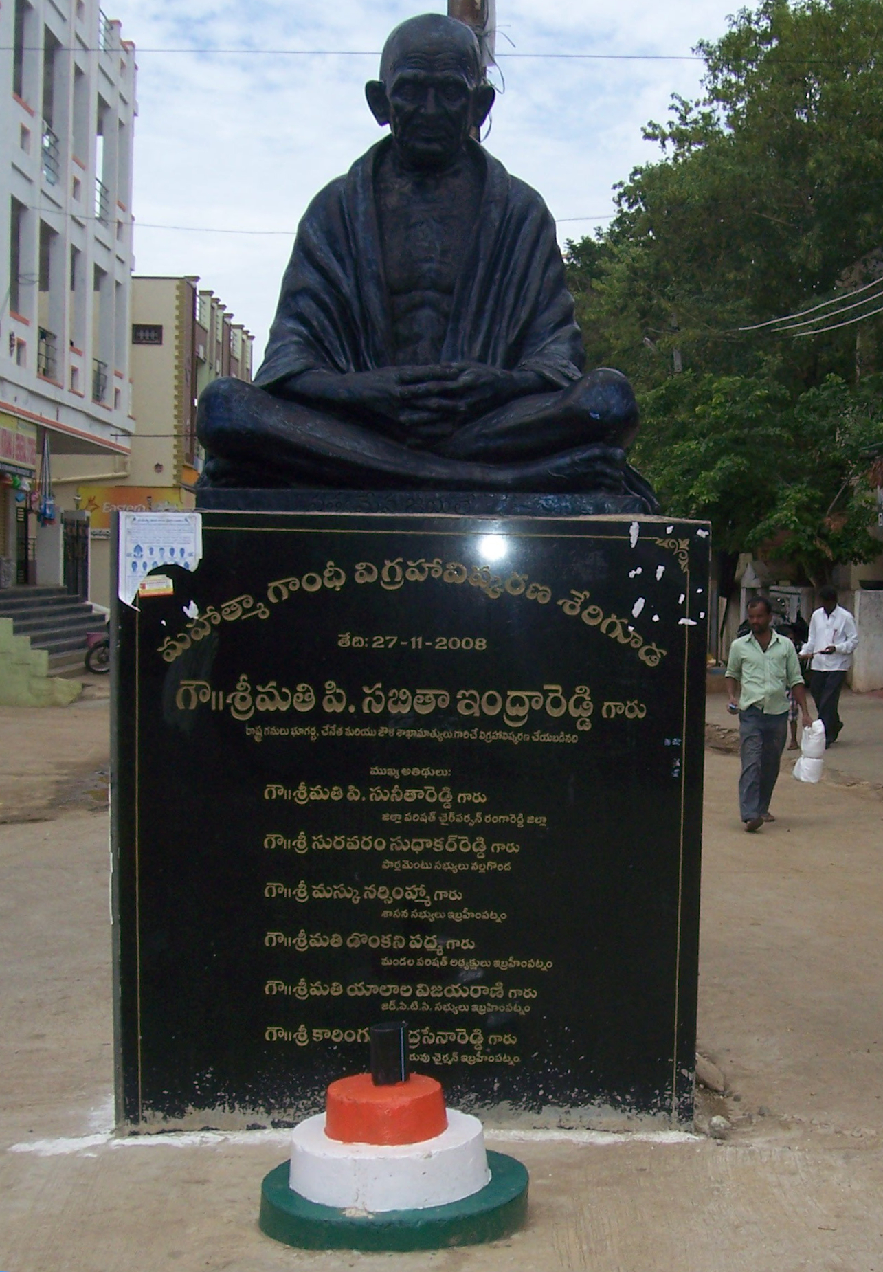 gandhi statue